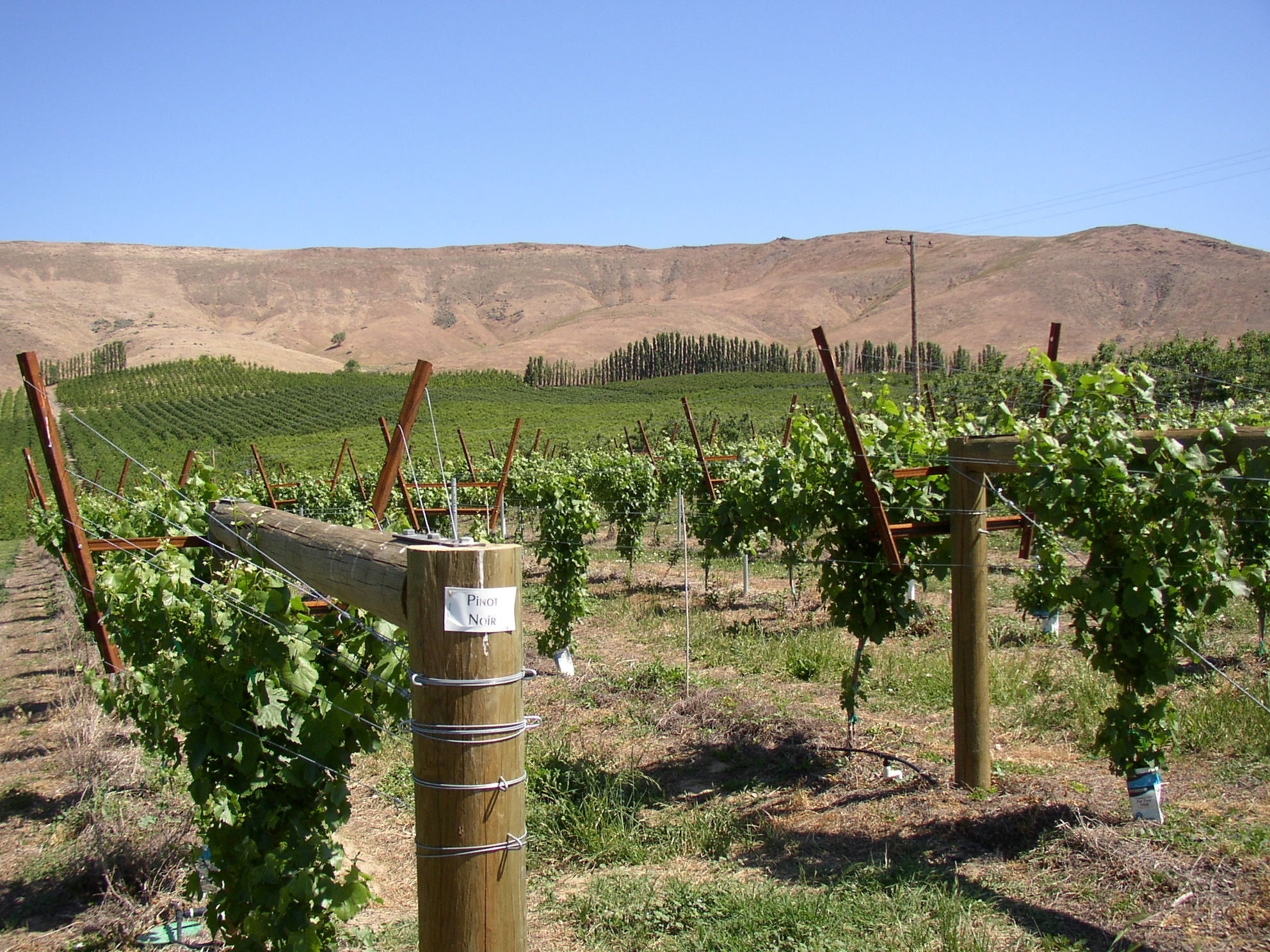 Uploaded for use with the Rattlesnake Hills AVA, which is an American Viticultural Area is located in Yakima County, Washington state, lying in the Yakima Valley between the north bank of the Yakima River and the south side of the Rattlesnake Hills between Granger and the Wapato dam. It is part of the larger Yakima Valley AVA, which is part of the still larger Columbia Valley AVA. Note the Rattlesnake Hills lie behind the vineyard in this photo.